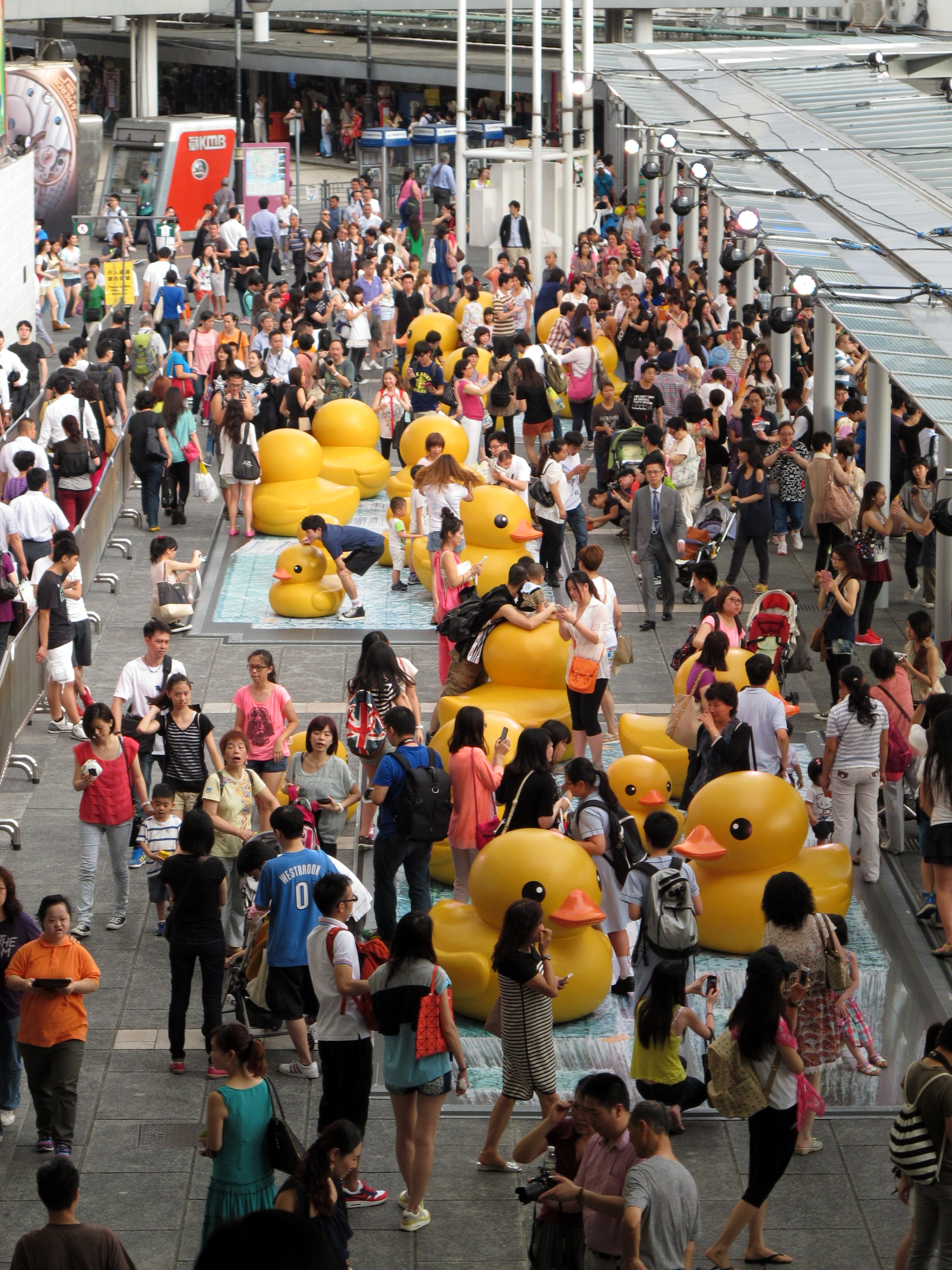 Rubber Duck Exhibit in Harbour City, Hong Kong